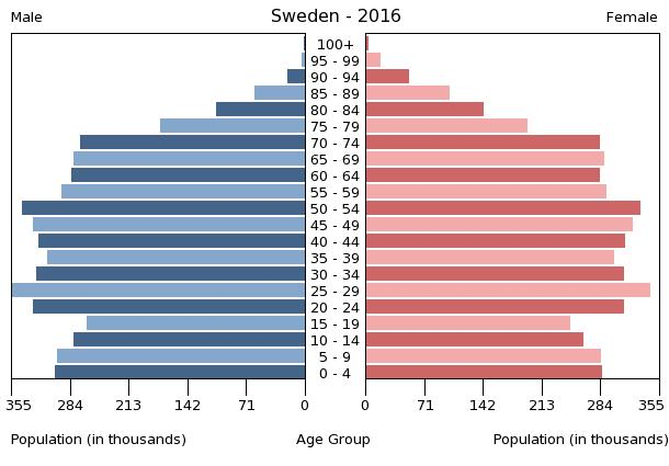 The population pyramid of Sweden illustrates the age and sex structure of population and may provide insights about political and social stability, as well as economic development. The population is distributed along the horizontal axis, with males shown on the left and females on the right. The male and female populations are broken down into 5-year age groups represented as horizontal bars along the vertical axis, with the youngest age groups at the bottom and the oldest at the top. The shape of the population pyramid gradually evolves over time based on fertility, mortality, and international migration trends.